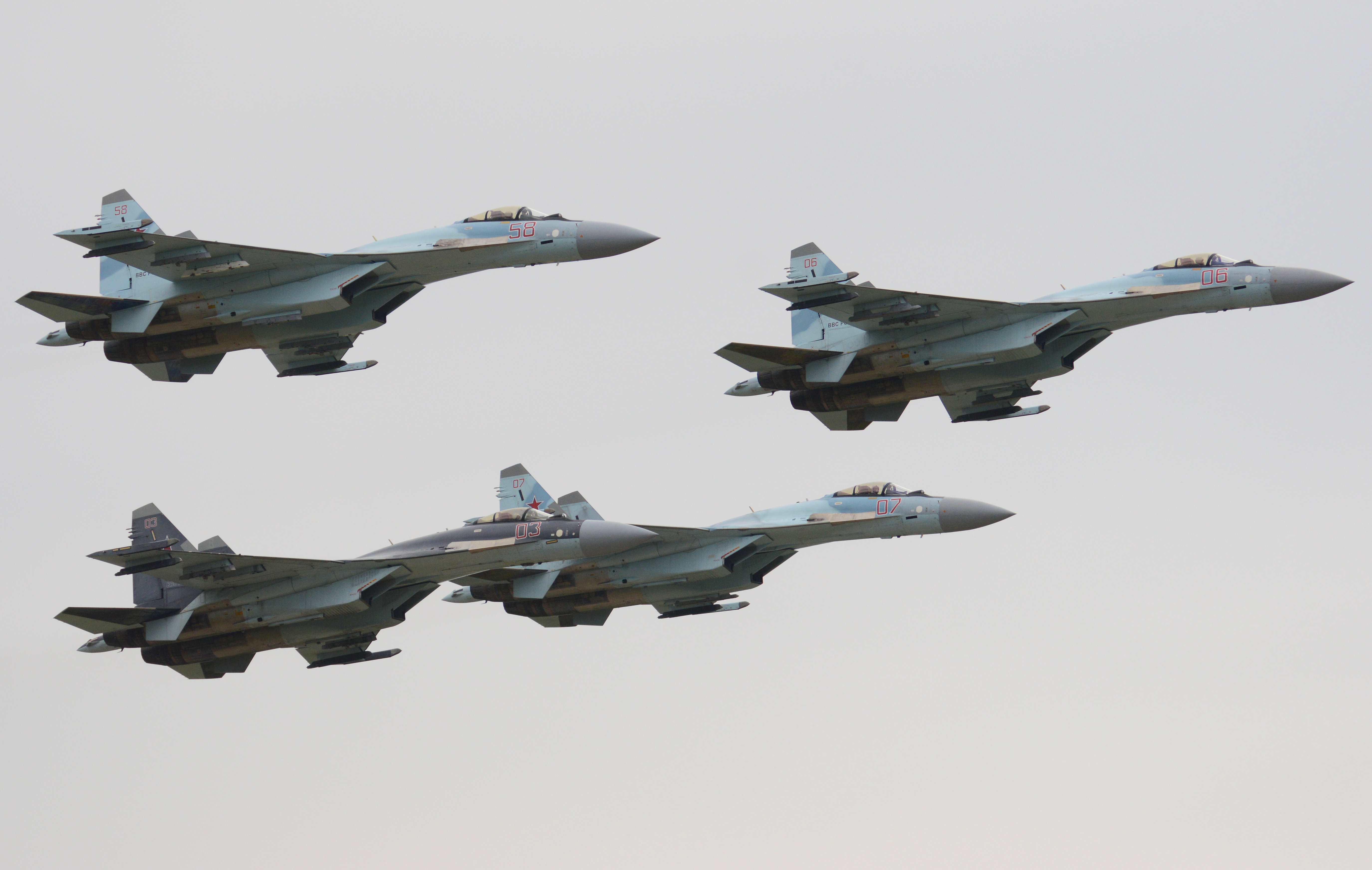 The ‘Falcons of Russia’ are a combat demonstration team flying the Sukhoi Su-35S. The pilots are instructors from the 4th Centre for Combat Application and Crew Training (GTsPAPIPVI), part of the 968th Instructior-Research Aviation Regiment (IISAP) based at Lipetsk. The aircraft on this occasion were:- ‘RF-95242 / 03 red’ c/n 49083501309. ‘RF-95850 / 06 red’ c/n 49083503002. ‘RF-95849 / 07 red’ c/n 49083503003. and ‘RF-81746 / 58 red’ c/n 49083503717. Seen displaying at the Aviation cluster of the ARMY 2017 event. Kubinka Airbase, Moscow Oblast, Russia. 23rd August 2017